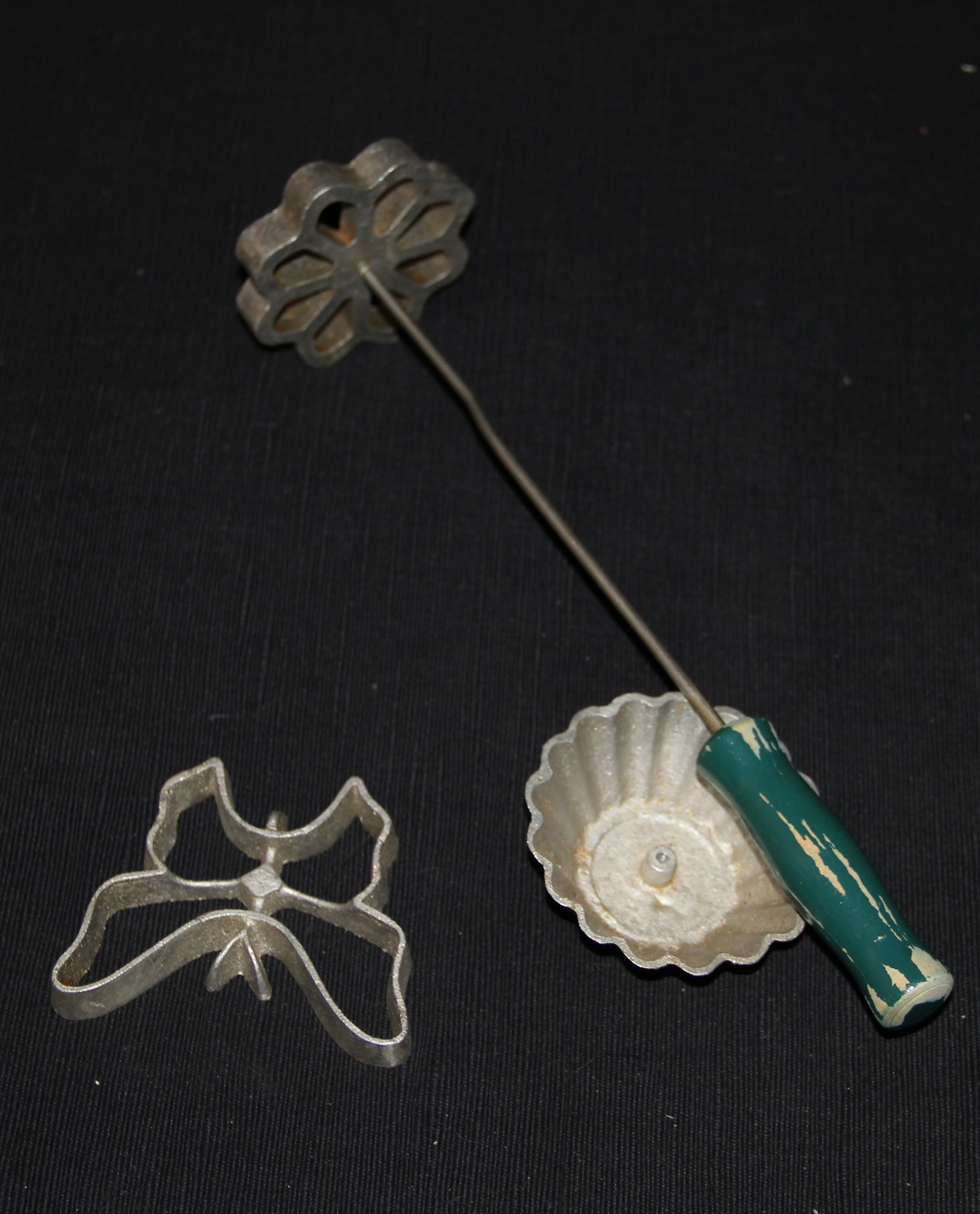 An old rosette mould